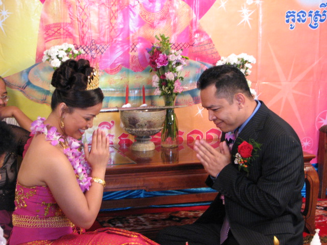 Cambodian sampeah (greeting gesture)